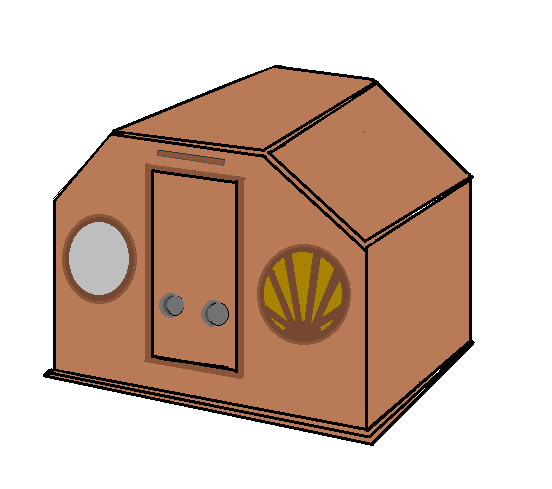 Baird Televizor Model B